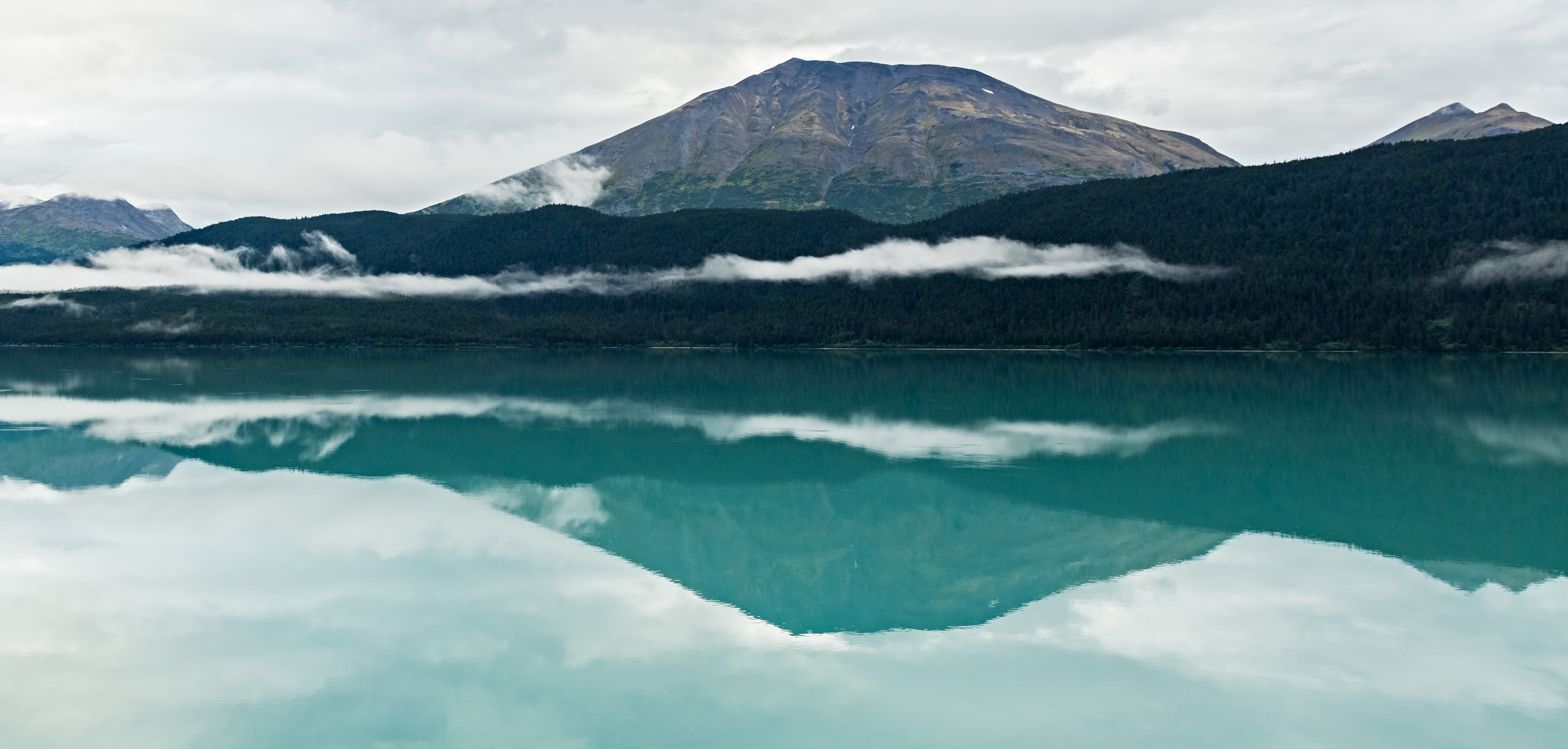 Mount Adair's east aspect seen across Kenai Lake